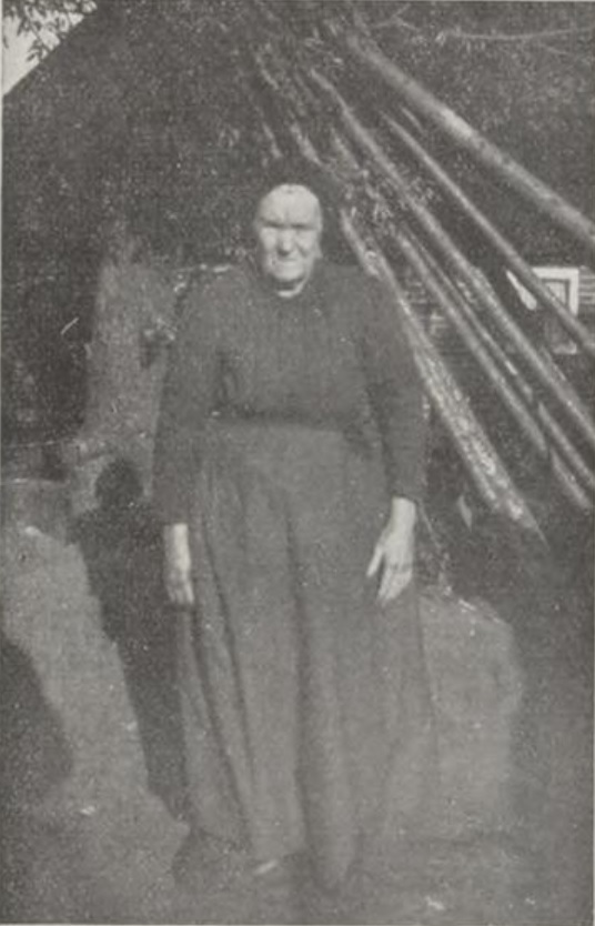 Photo taken during an interview on 4 June 1932 in Veenwoudsterwal, aged 80.